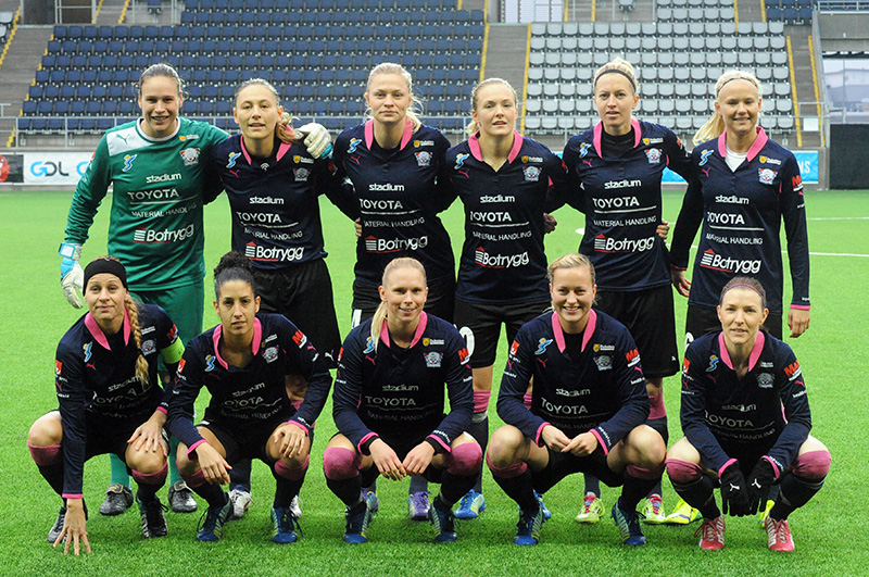 Linköpings FC team group in November 2014 before UWCL match against Zvezda 2005